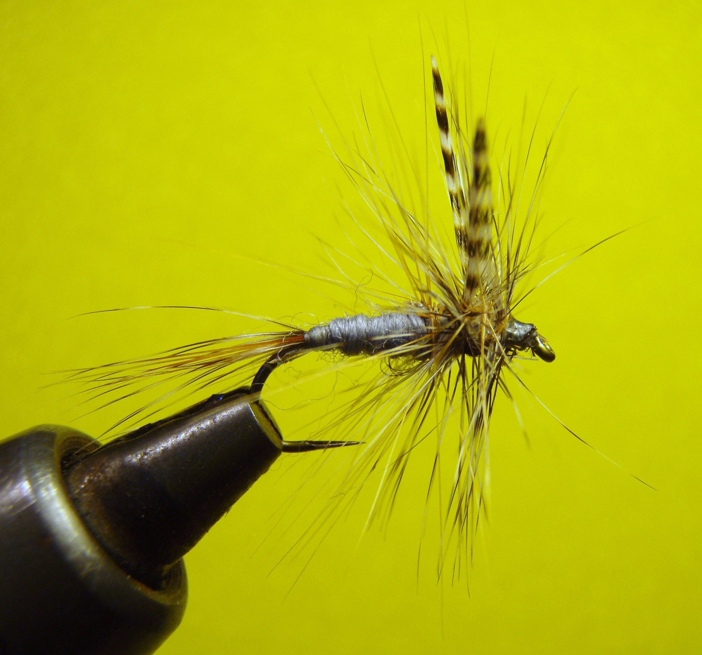 It is one of the more versatile flies because it is affective on both the west and east coasts. It is usually a size-18 and has been the most popular fly for over 30 years. Has both hackle and upright wings/ brightly colored. Composition:➢ Hook-dry fly hook (size 10-20)